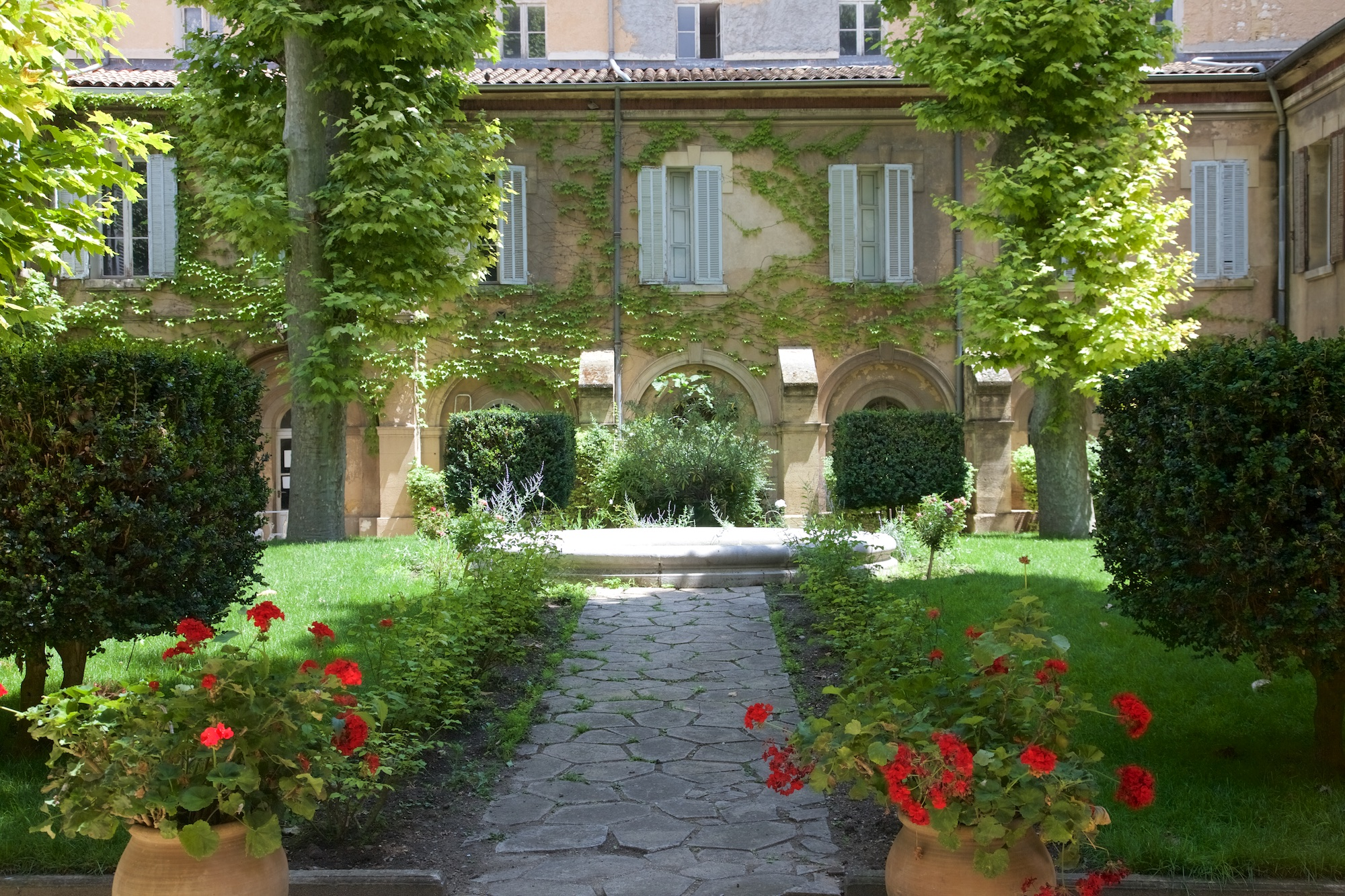 Collège du Sacré Coeur .